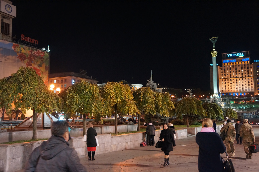 Tree alley on Maidan Nezalezhnosti, Kyiv